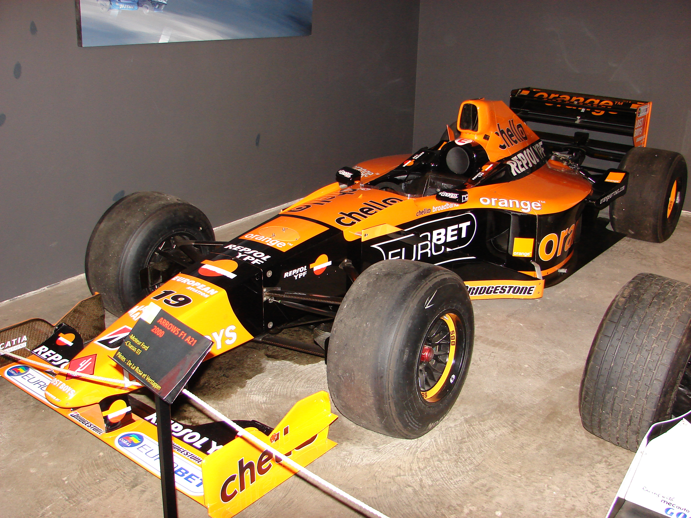 Arrows A21, Formula One car driven by Pedro de la Rosa and Jos Verstappen during the 2000 season. Here these F1 is in the Spa-Francorchamps Museum in Stavelot